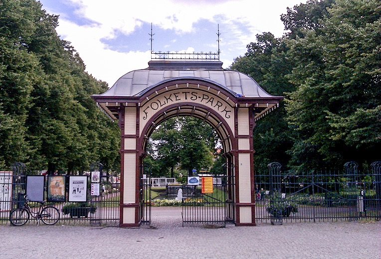 Entrance to the Folkets park (People's park) in Malmö, Sweden